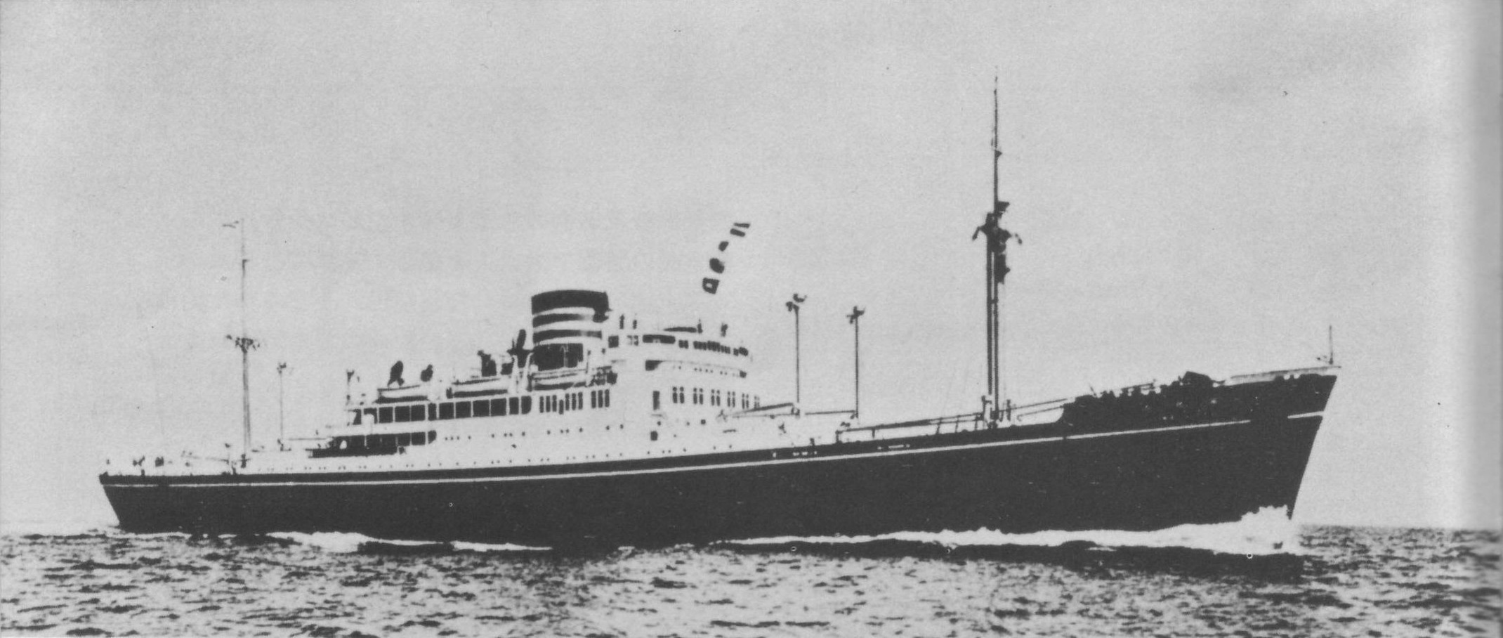 NYK Line "Miike Maru"